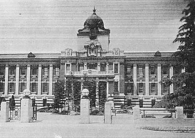 Nagoya Court of Appeals